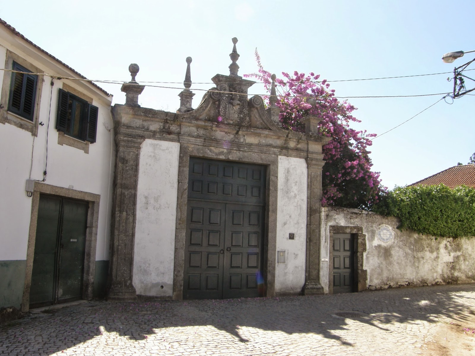 Cadeado manor house